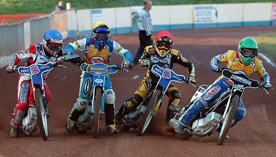 This is my own work. This photo (though small) shows the first bend of a speedway meeting. The riders are in two teams (the Hull Vikings and Isle of Wight Islanders, though the Hull Vikings are now defunct), with two riders from each team riding in each heat. The riders are (from left to right): Paul Thorp, Jason Doyle, Emiliano Sanchez and Craig Boyce. The person in the background in a black and white striped top is the starting marshall. This photo was taken at Craven Park (home of the Hull Kingston Rovers Rubgy League Club) in a Premier League meeting between Hull Vikings and IOW Islanders on 11-05-05. Adamjennison111 22:40, 31 August 2006 (UTC)